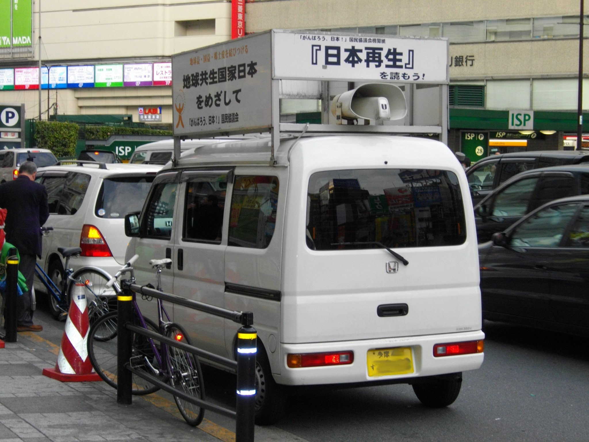 Ganbarou-Nippon! Kokumin-Kyogikai propaganda automobile